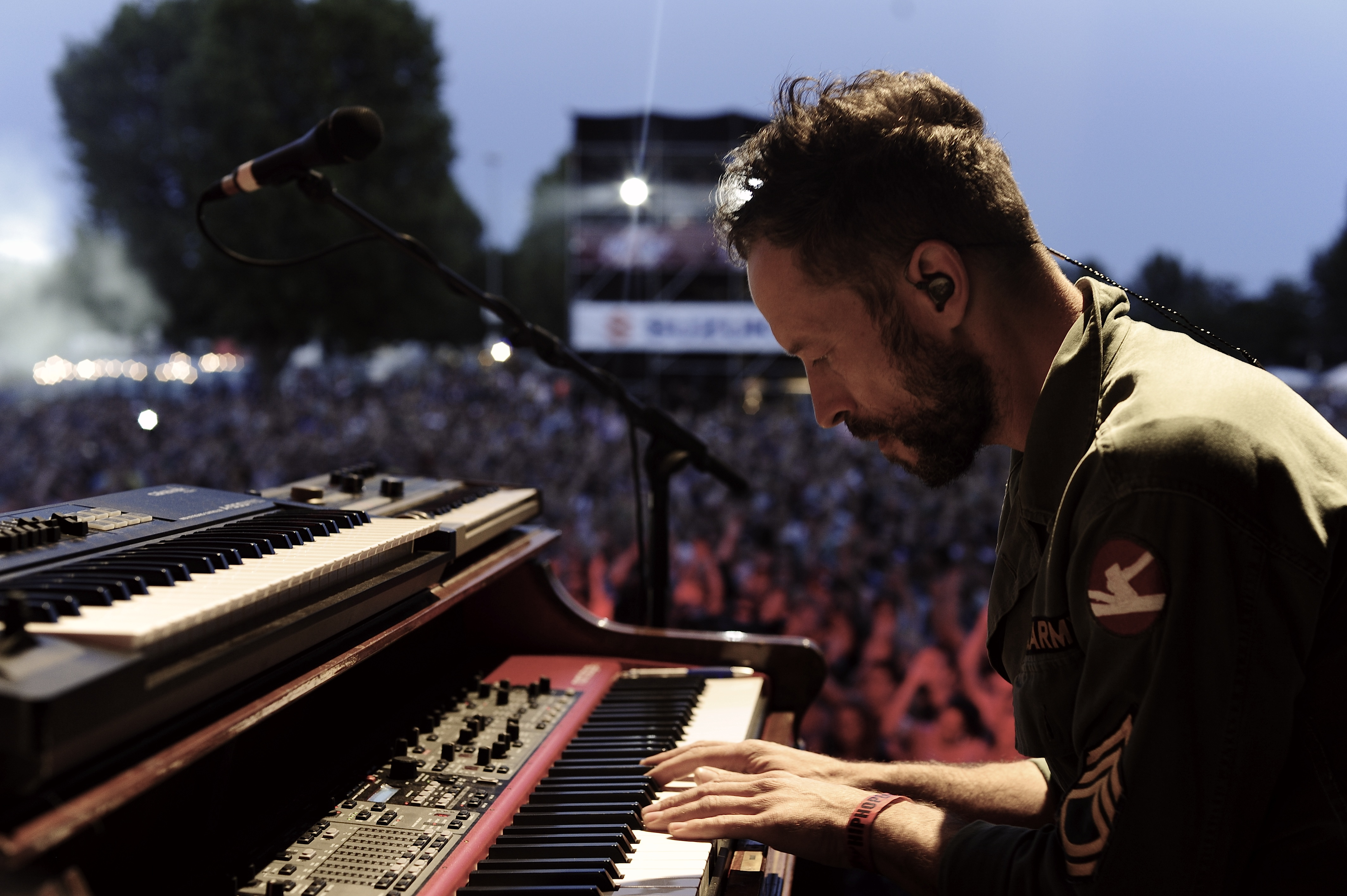 @Hip Hop Open Stuttgart with Max Herre